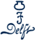 Trademark Royal Delft